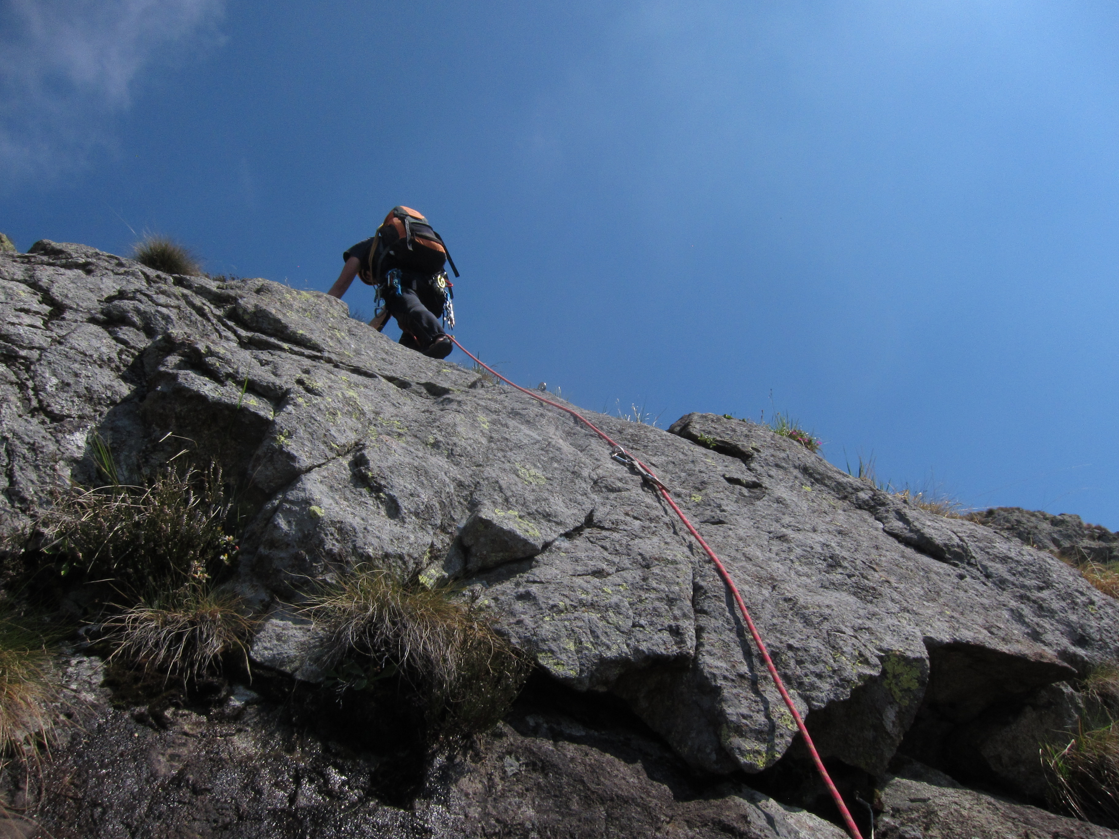 A rock climber on the mountain Rocca d'Argimonia (1610 m.a.s.l.) is climbing up the route "Via della Jella" (the route of bad luck) . The mountain is located in the Biella province, Piedmont region in Italy. Picture taken on the 2nd of June in 2019. 2019-06-02